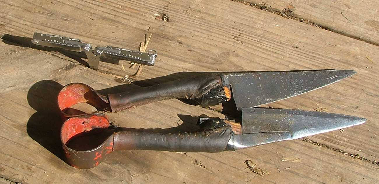 Blade Shears used in demonstration at the New York Sheep & Wool Fair 2007